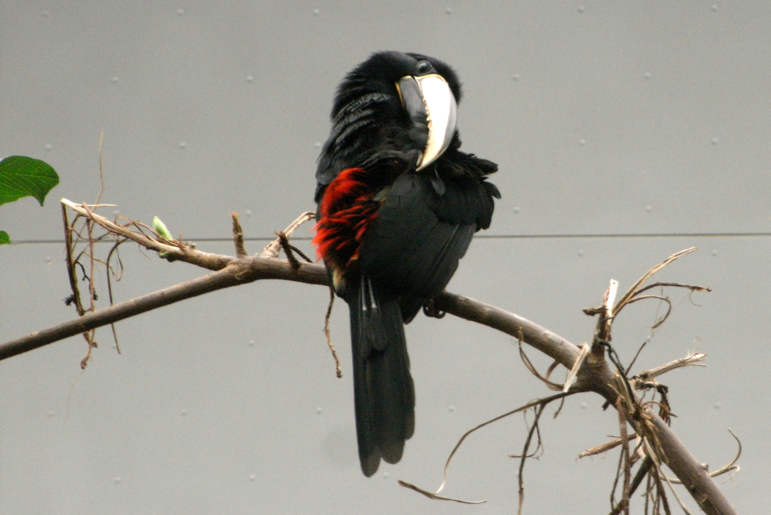 Black necked aracari at London Zoo